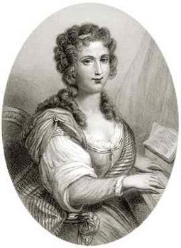 Portrait of Françoise-Louise de Warens (1699-1762)